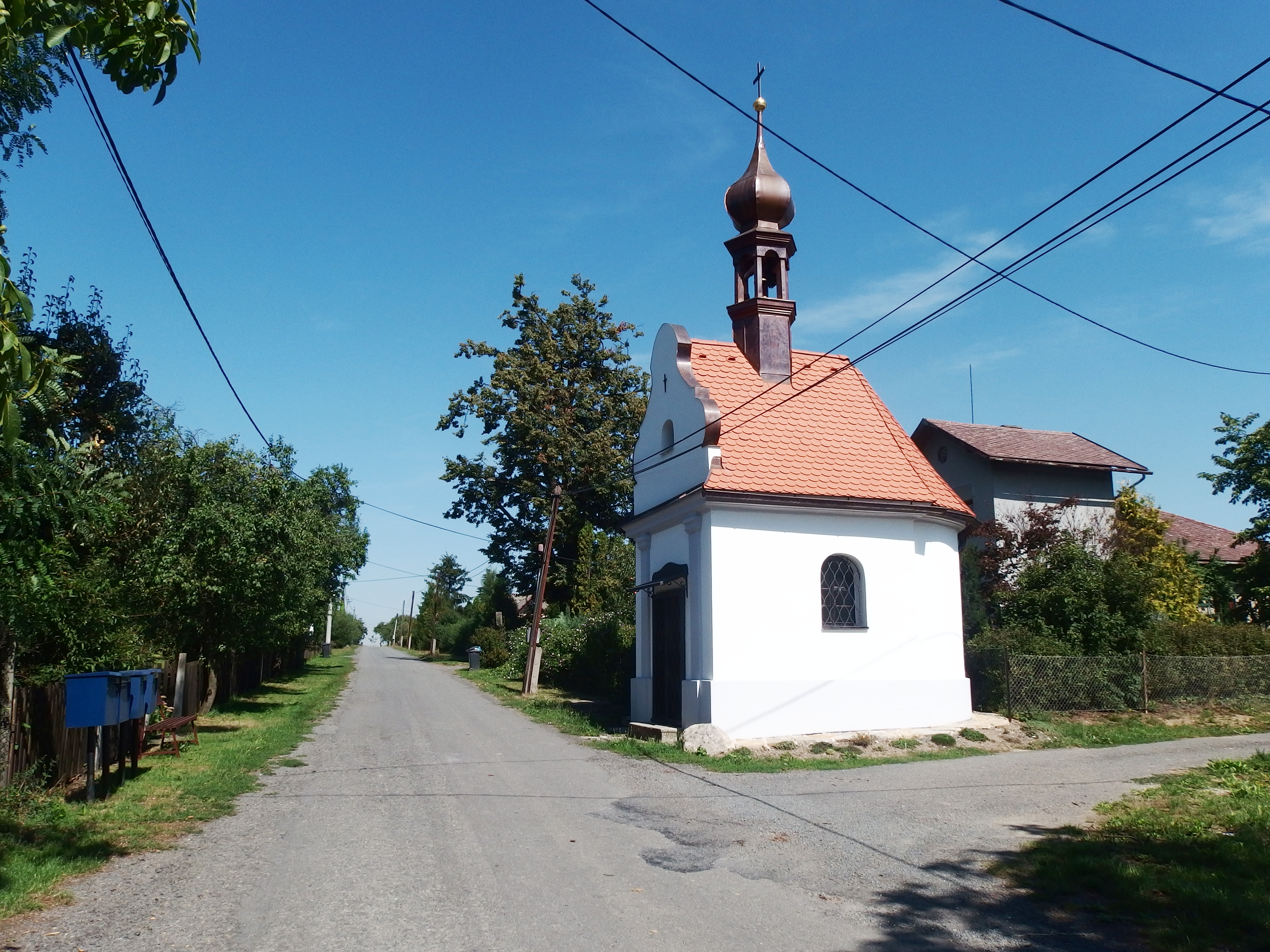 Jeseník nad Odrou, Nový Jičín District, Czech Republic, part Hrabětice.